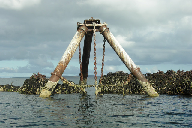 Anti-submarine net anchor tripod, Flotta This huge tripod was used to deploy one of many WW2 anti-submarine nets around Flotta, Scapa Flow. The net forms a reef across Calf Sound between Flotta and Calf of Flotta.